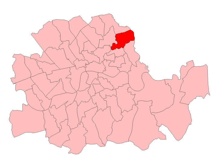 A map of Hackney South constituency within the London County Council area, as it existed from 1918 to 1949.